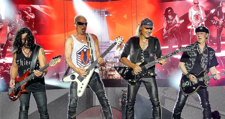 Scorpions live RockFest Barcelona, 23/7/2015